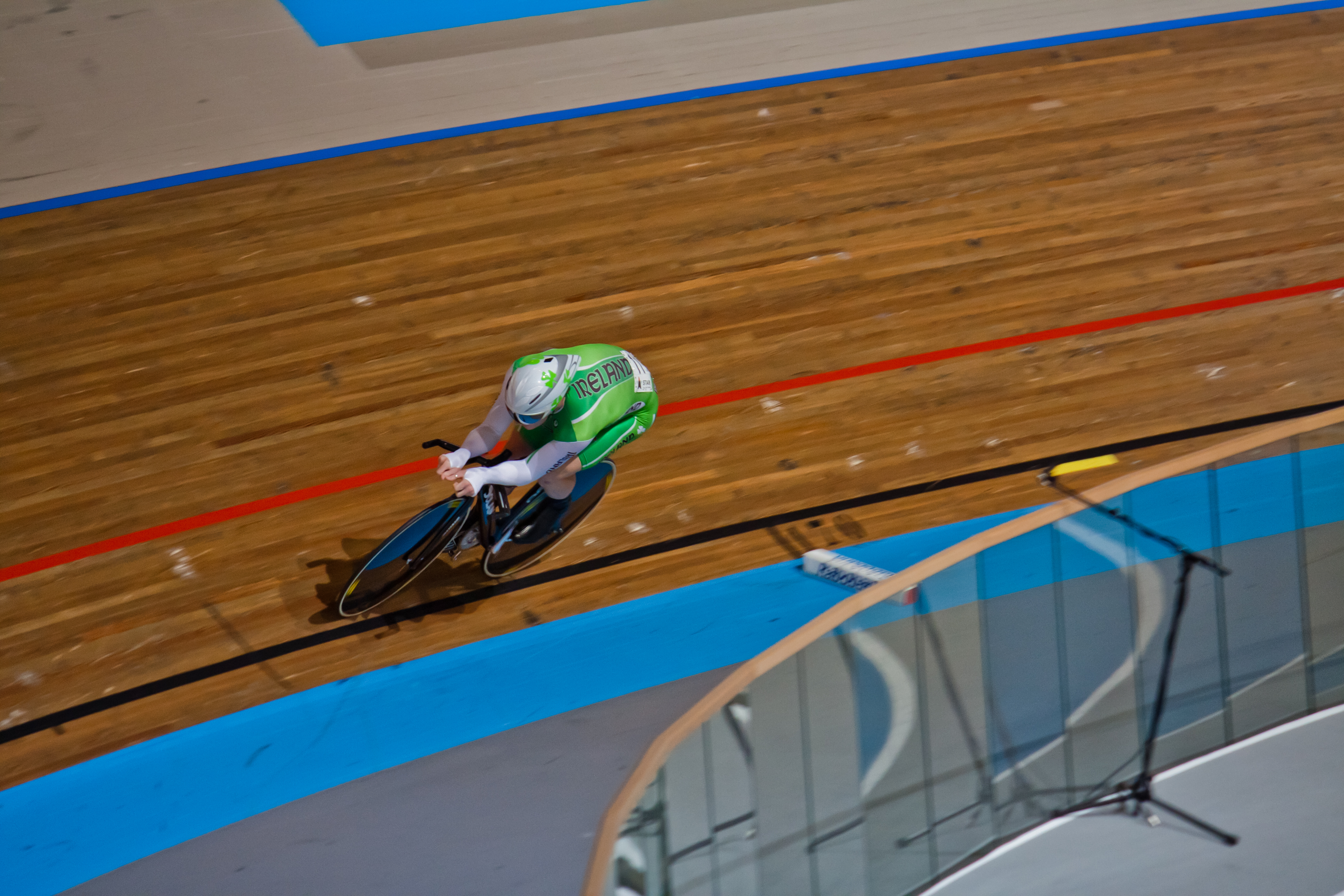 Martyn Irvine of Ireland, during the men's omnium final - KM time trial. At the 2011 European Elite Track Cycling Championships in Apeldoorn, Netherlands.